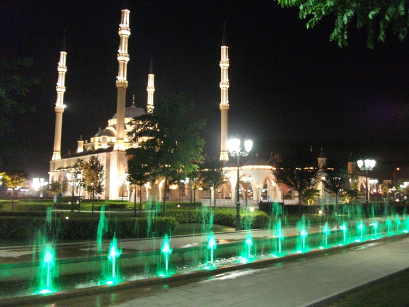 Grozny, 2010